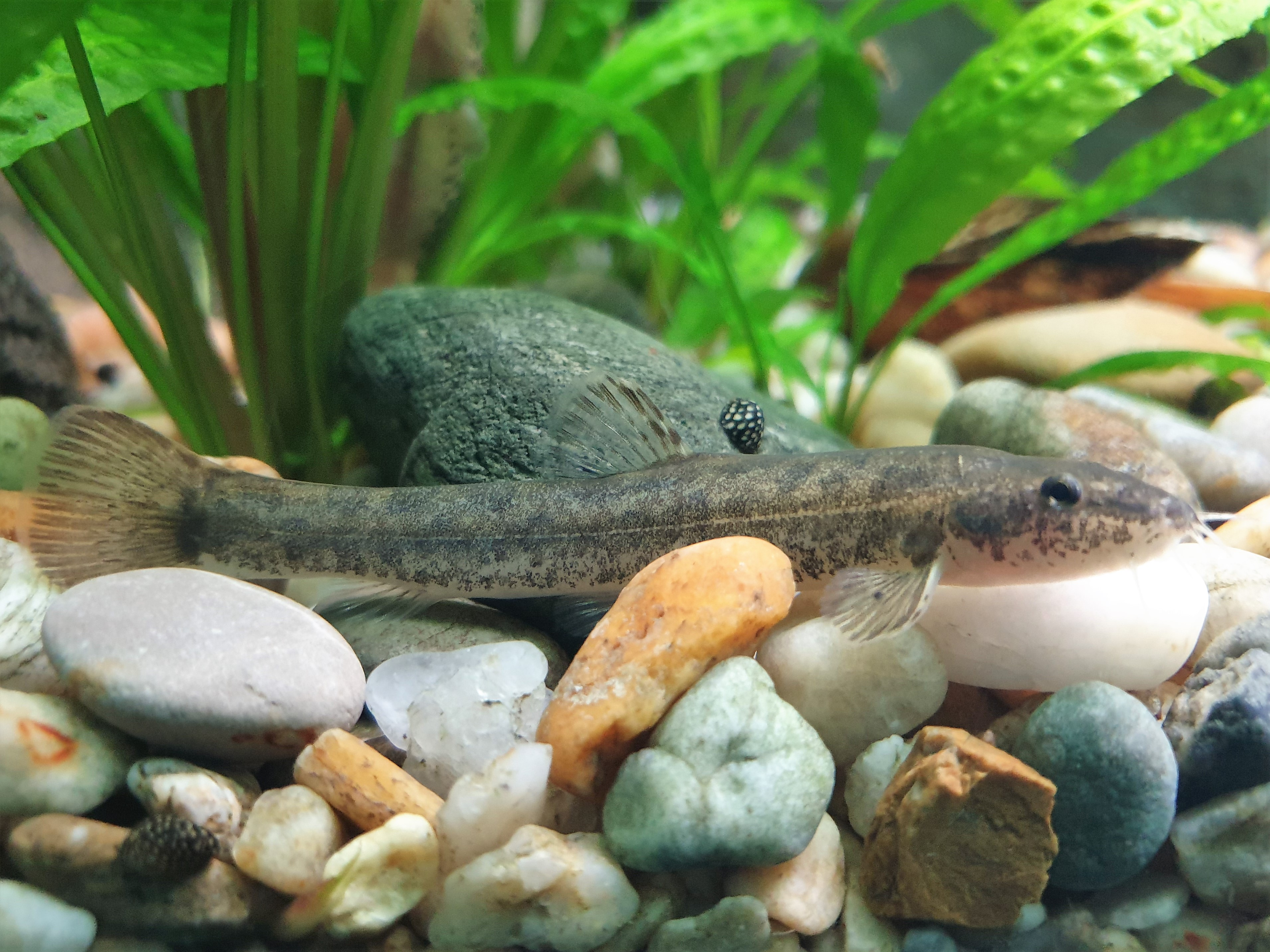 White-finned gudgeon (Romanogobio albipinnatus) at the Bodorka Balaton Aquarium in Balatonfüred, Hungary.